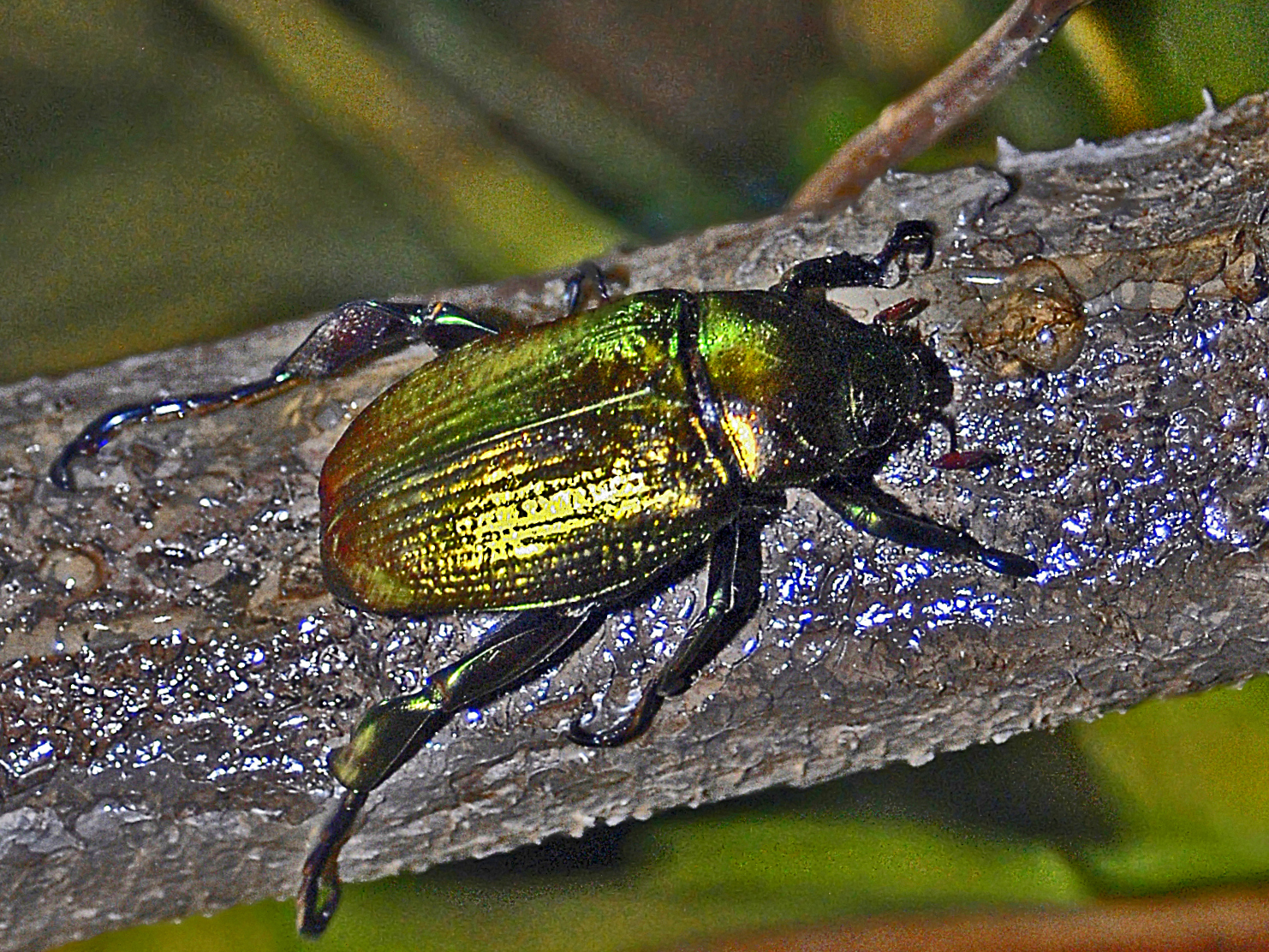 Pelidnota kirbyi. Mounted specimen on display at the Museo Civico di Storia Naturale di Milano